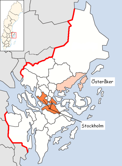 Österåker Municipality in Stockholm County Designed by me. Mere outlines are a PD source from